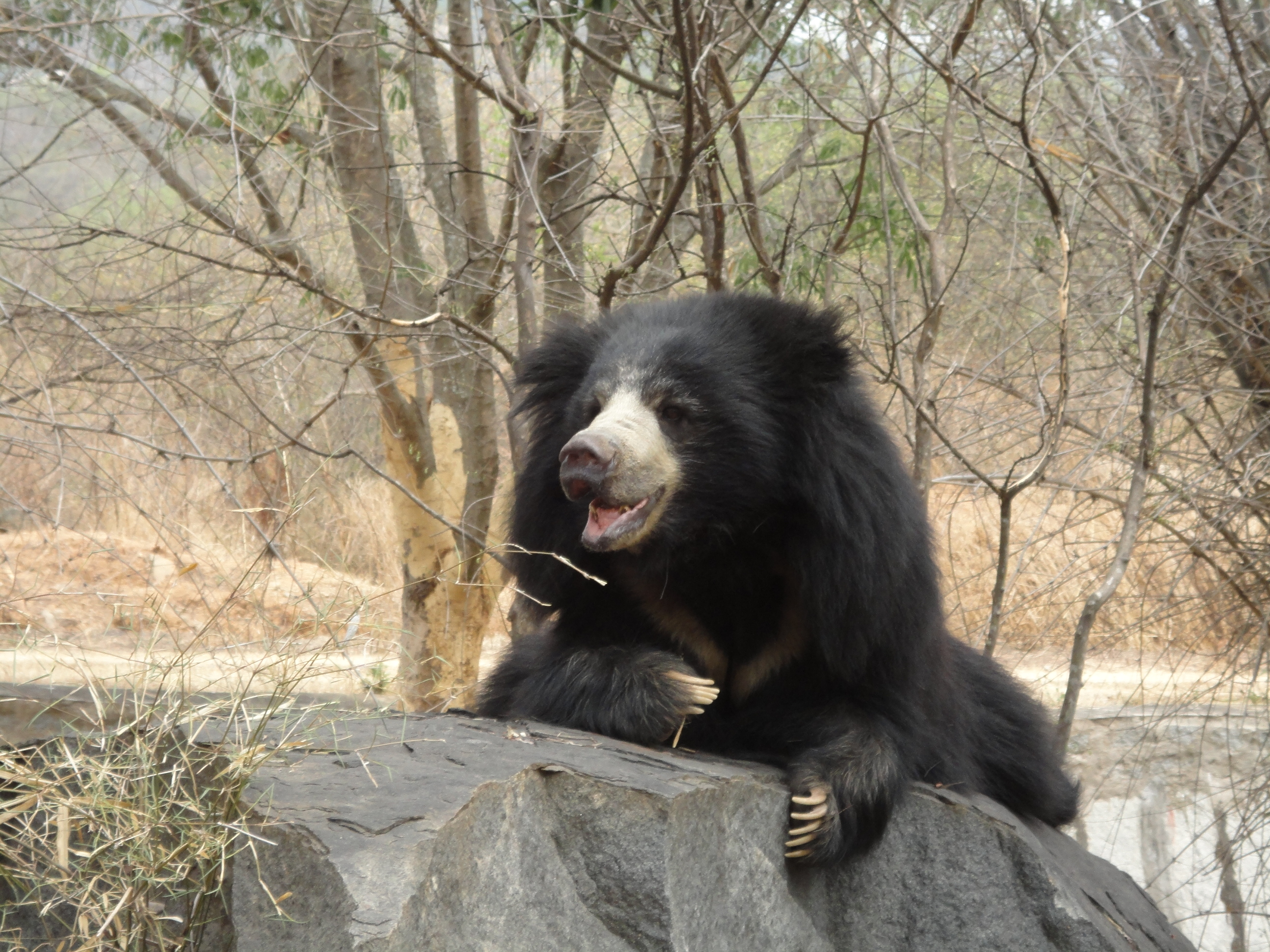 Sloth Bear at Bannerghatta National Park